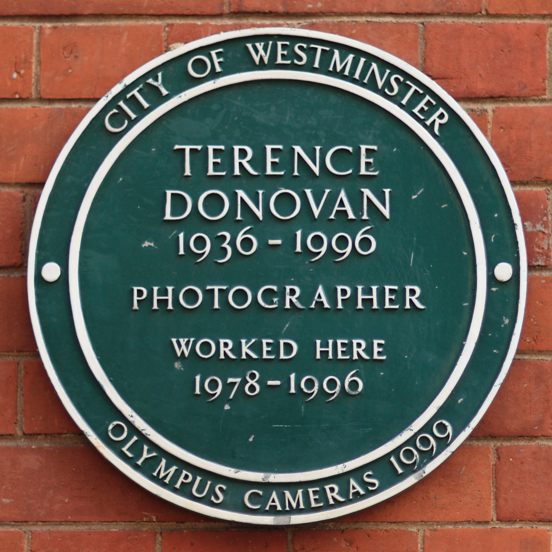 Green Plaque on the building housing the former studios of Terence Donovan at 28-30a Bourdon Street in Mayfair.